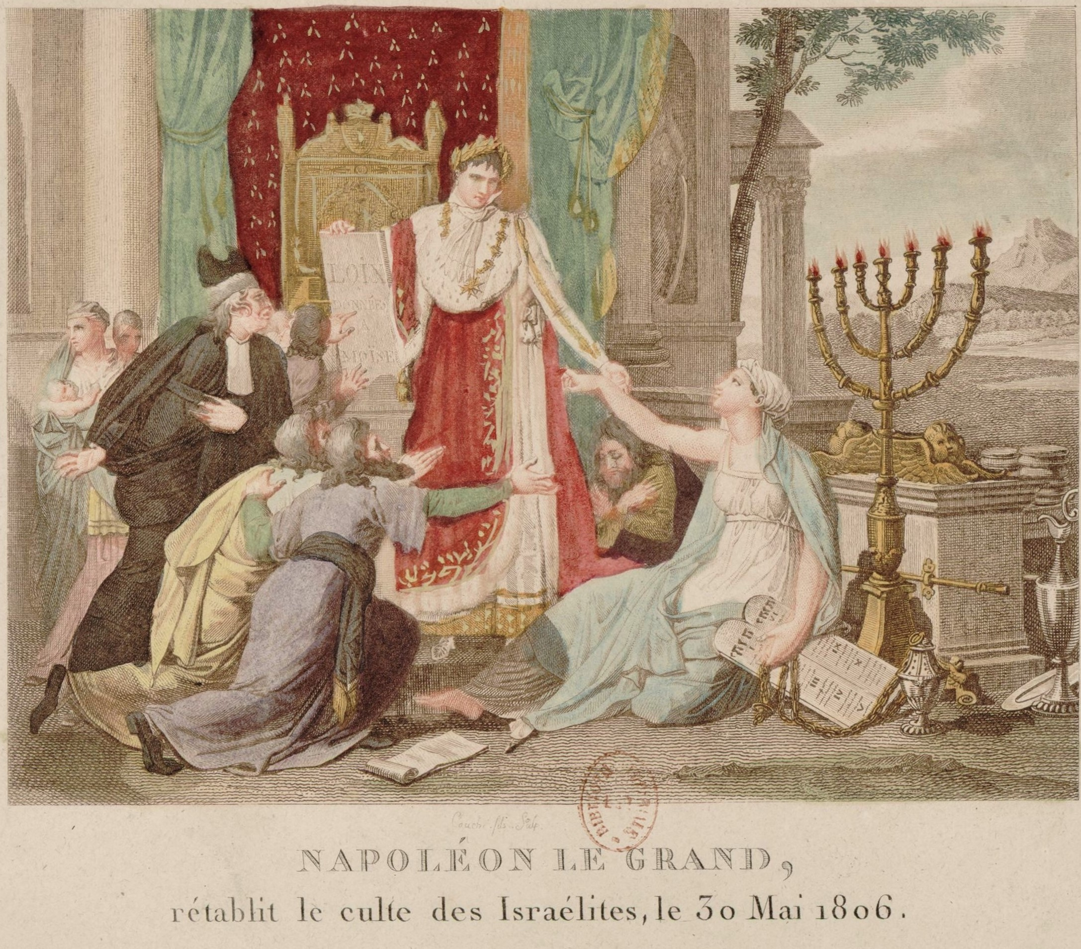 Napoleon grants freedom to the Jews. 1806 print, in which Napoleon grants the Jews freedom to worship, represented by the hand given to the Jewish woman.